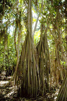 A species of large pandanus (Pandanus sp) trees, viewed from underneath. Nikumaroro (formerly Gardner) Island, Phoenix Islands, Kiribati. Original field notes: This may be a large-fruited pandanus introduced from somewhere in the western Pacific, as a food plant for the Phoenix Islands Settlement Scheme 1938-1962. Note the typical prop roots of pandanus, enabling them to live along the coast, enduring violent seas and winds.